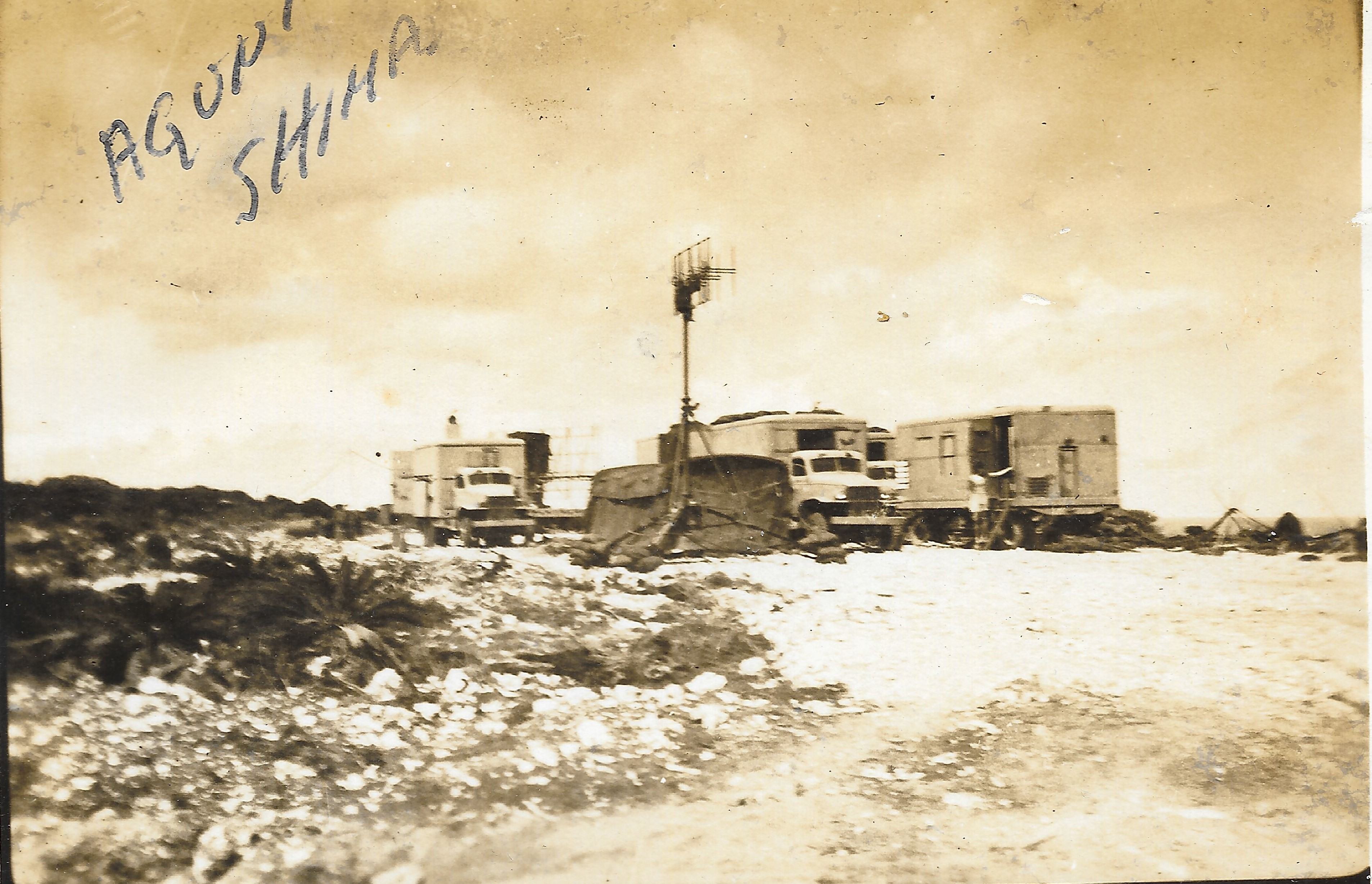 Radar vans from Air Warning Squadron 8 (AWS-8) of the United States Marine Corps on Aguni Shima near Okinawa, Japan in July 1945. Photo was scanned from the personal collection of Edgar H. Gilchrist, a member of AWS-8.